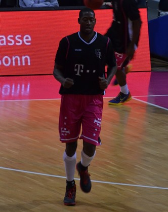 taken during professional basketball game in Germany